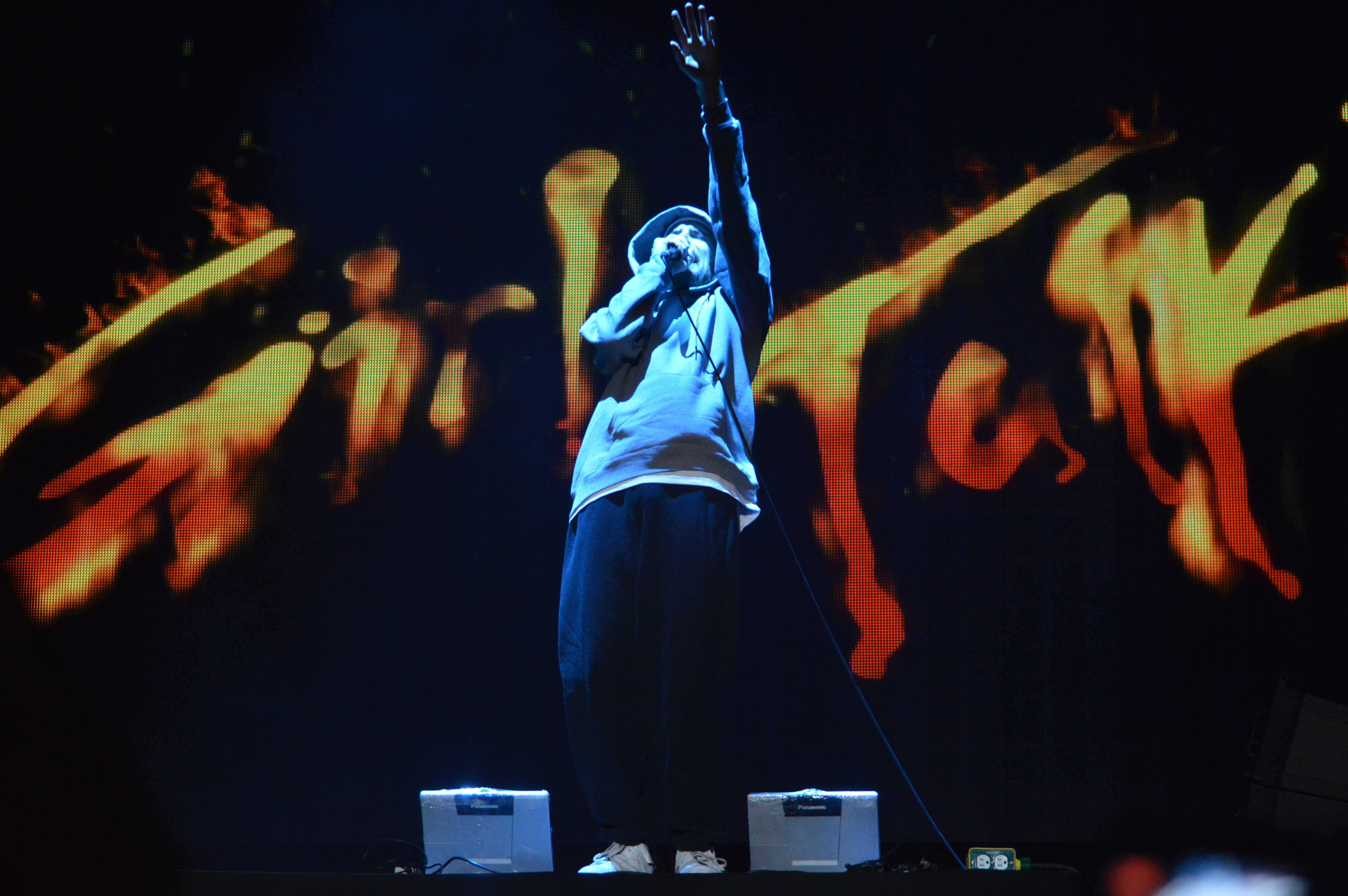 Gregg Michael Gillis (Girl Talk) in Mexico City on July 4, 2013